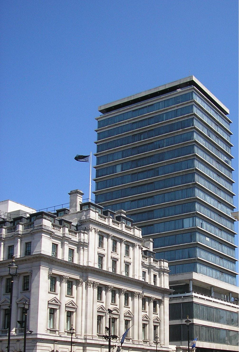 New Zealand House in London